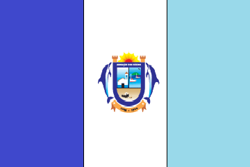 Flag of Armação dos Búzios, state of Rio de Janeiro, Brazil. This work is in the public domain in Brazil for one of the following reasons: It is a work published or commissioned by a Brazilian government (federal, state, or municipal) prior to 1983.(Law 3071/1916, art. 662; Law 5988/1973, art. 46; Law 9610/1998, art. 115) It is the text of a treaty, convention, law, decree, regulation, judicial decision, or other official enactment.(Law 9610/1998, art. 8) This image shows a flag, a coat of arms, a seal or some other official insignia. The use of such symbols is restricted in many countries. These restrictions are independent of the copyright status.